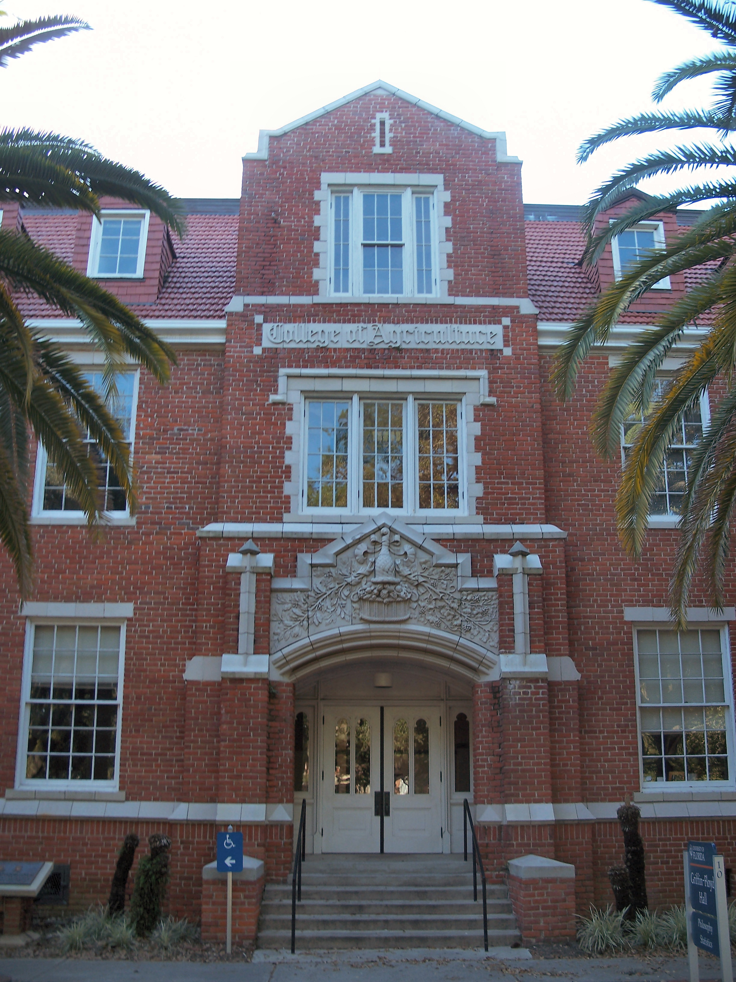 Griffin-Floyd Hall, part of the University of Florida Campus Historic District